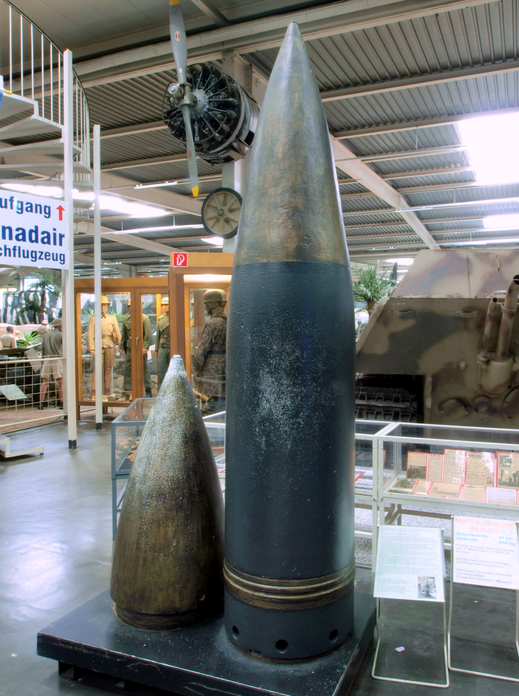 Photographed at the Auto & Technic museum Sinsheim.